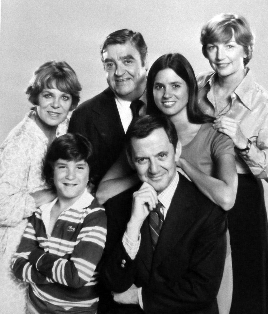 Cast of the television program The Tony Randall Show. Front: Brad Savage (Oliver Wendell Franklin), Tony Randall (Walter Franklin). Back: Rachel Roberts (Mrs. McClellan), Barney Martin (Jack Terwilliger), Penny Peyser (Bobbi Franklin), Allyn Ann McLerie (Mrs. Heubner).